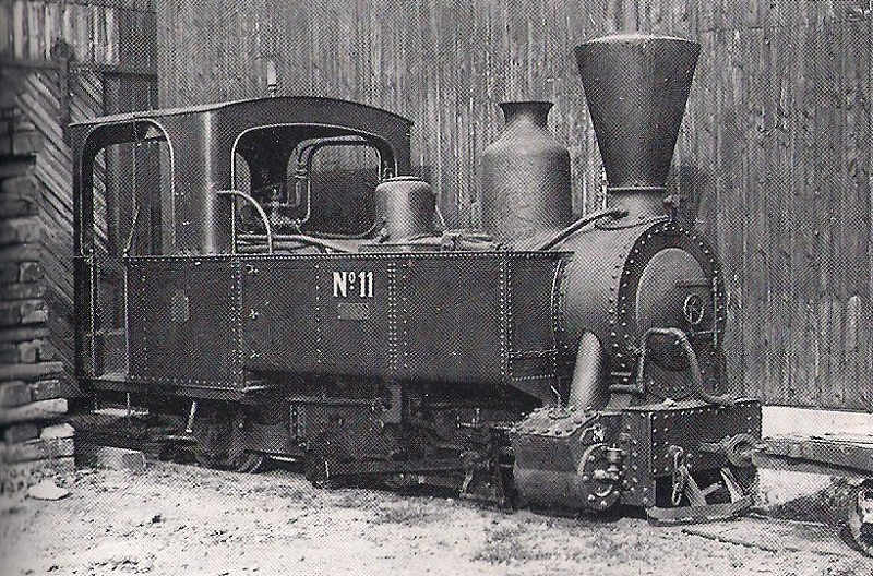 Decauville N° 267 od 1998 as No ° 11 'ELENA' at Tramway de Royan at Dépôt de Royan